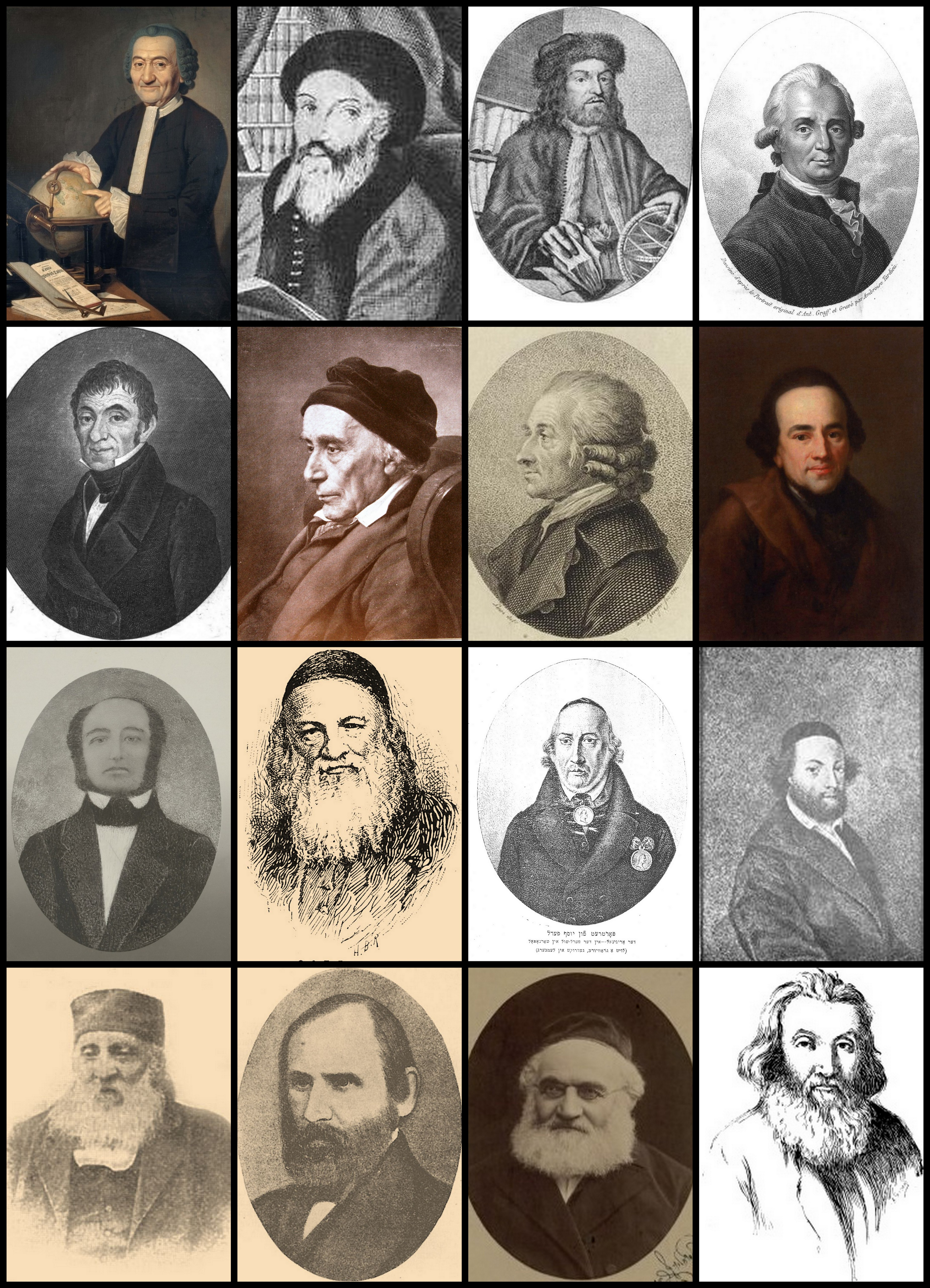 Prominent activists of the Haskalah, the intellectual movement which sought modernization of Jewish life. Operated circa 1770-1880.